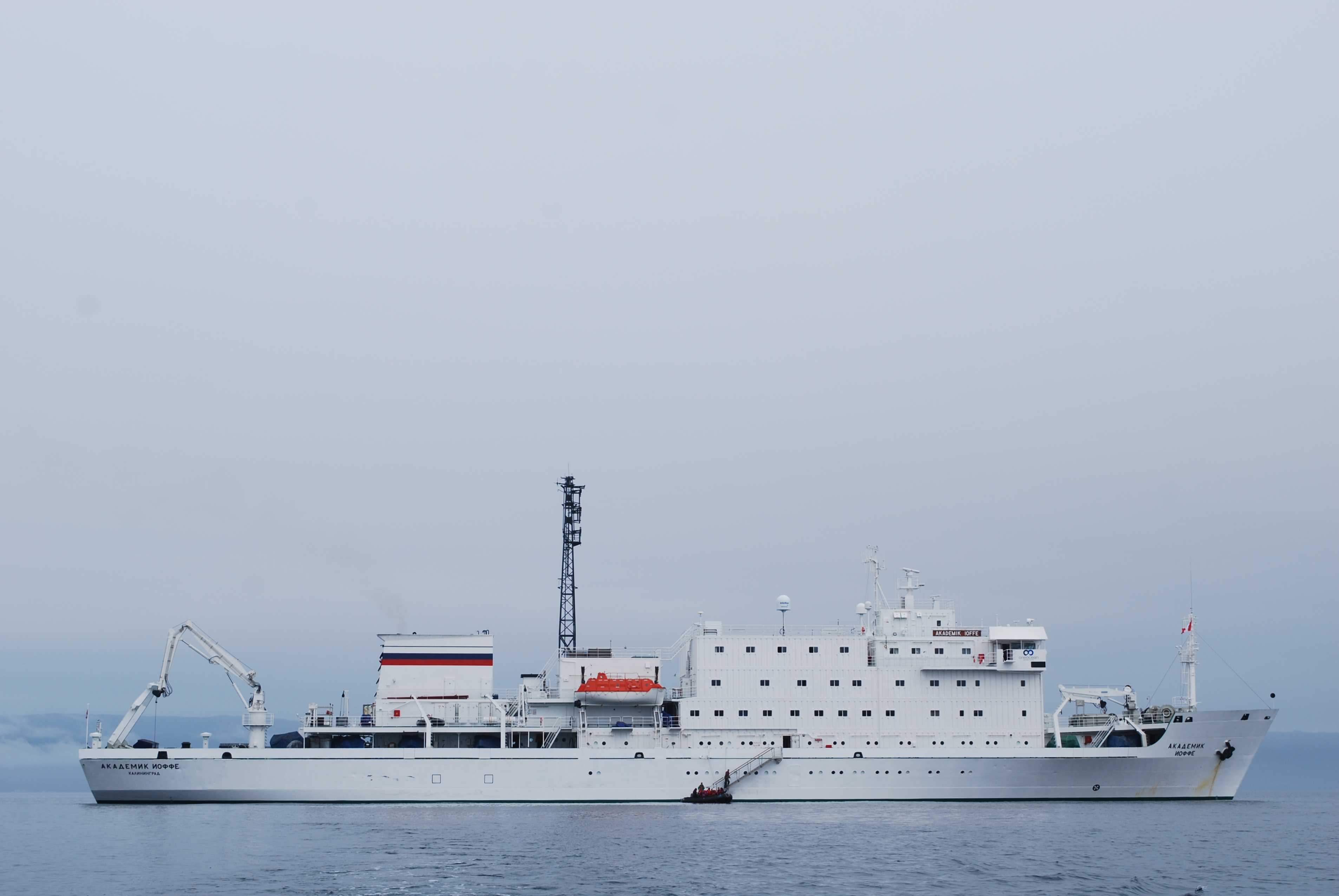 Profile view of the starboard side of the Russian research vessel Akademik Ioffe. The gangway is lowered with a Zodiac at its base.